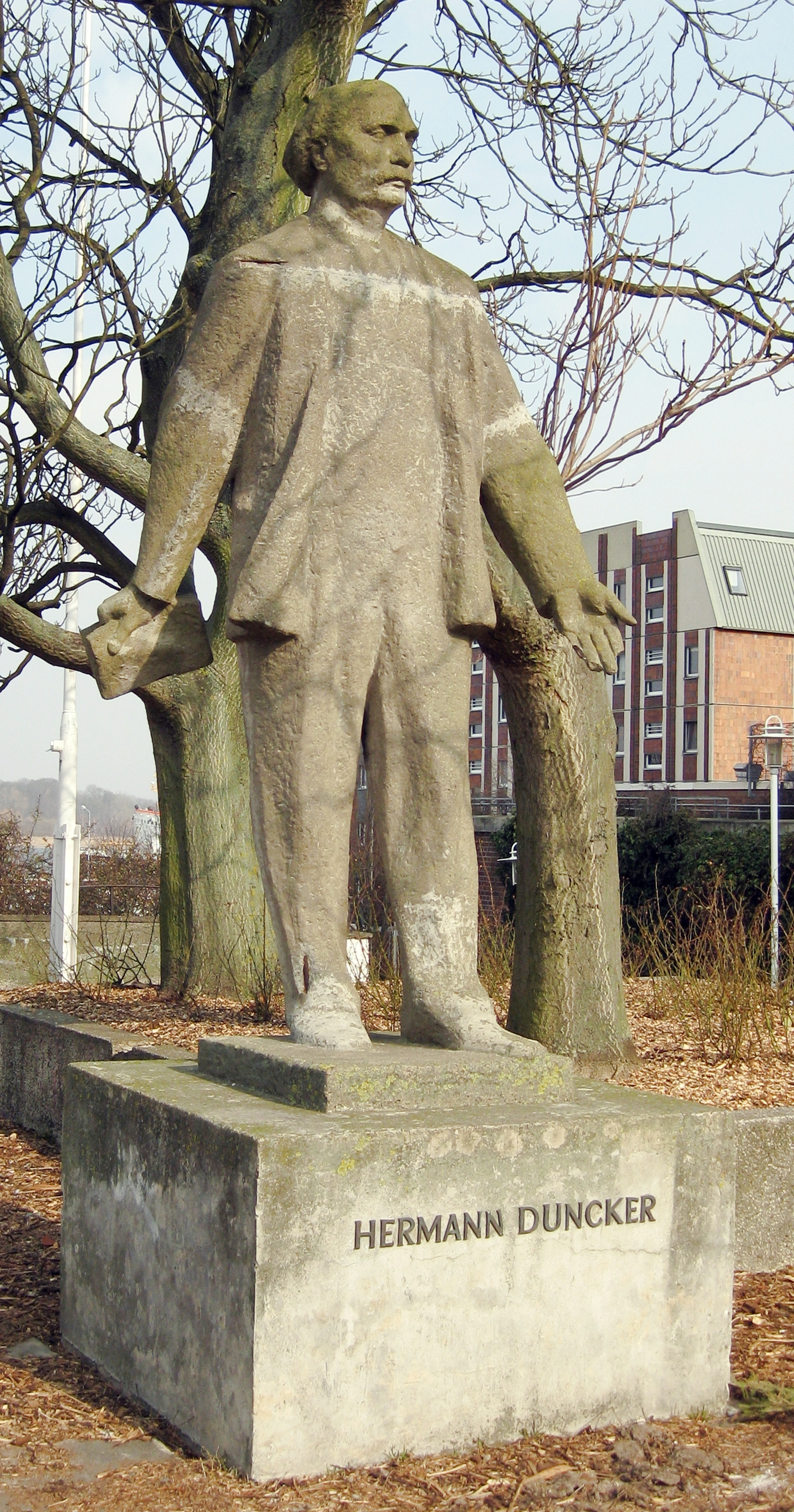 Rostock, Germany: statue of the German workers union leader and politician Hermann Duncker (1874-1960), located in Rostock, Lange Straße 1